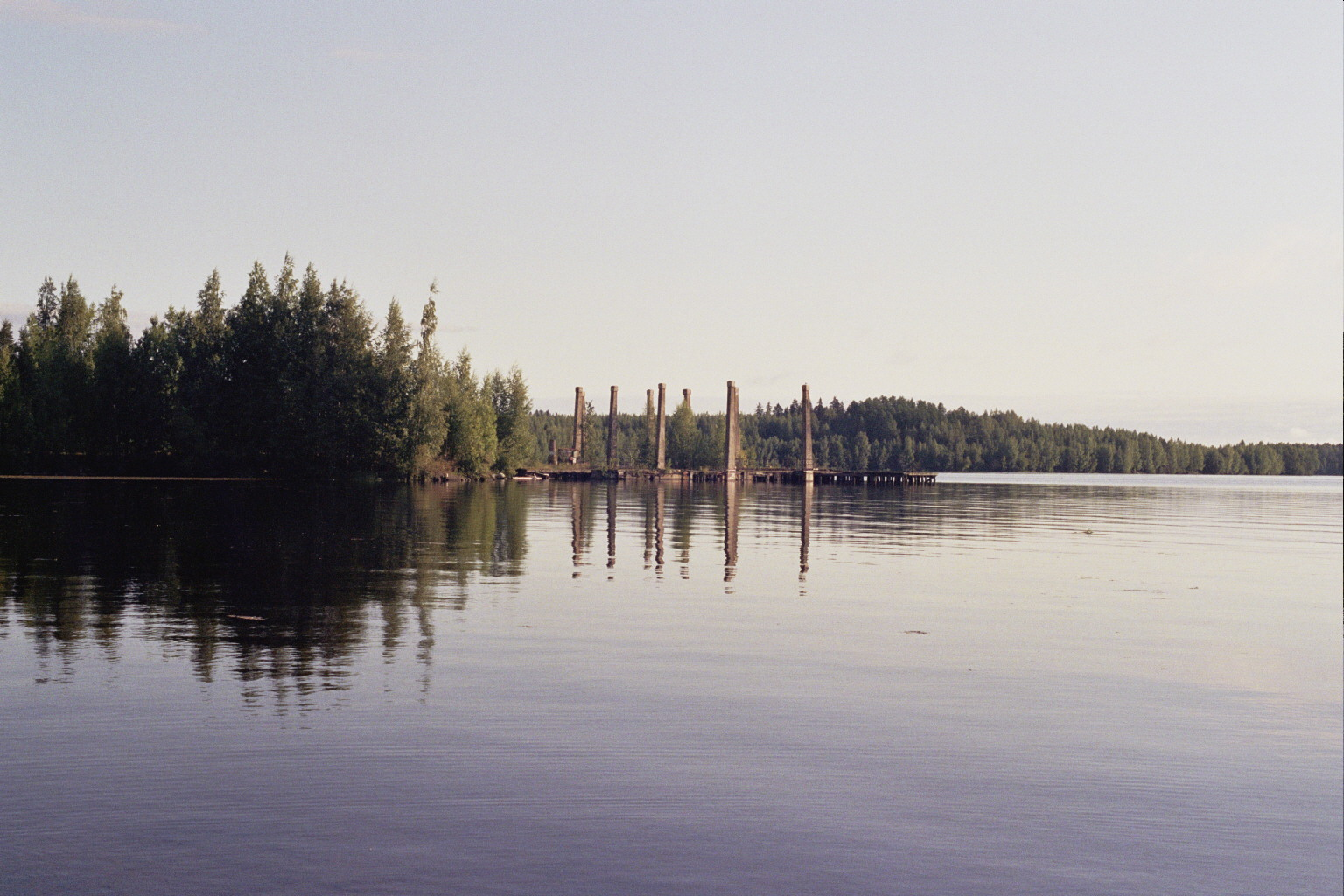 An old pier close to the M-real pulp mill in Lielahti, Tampere, Finland. The lake is Näsijärvi.